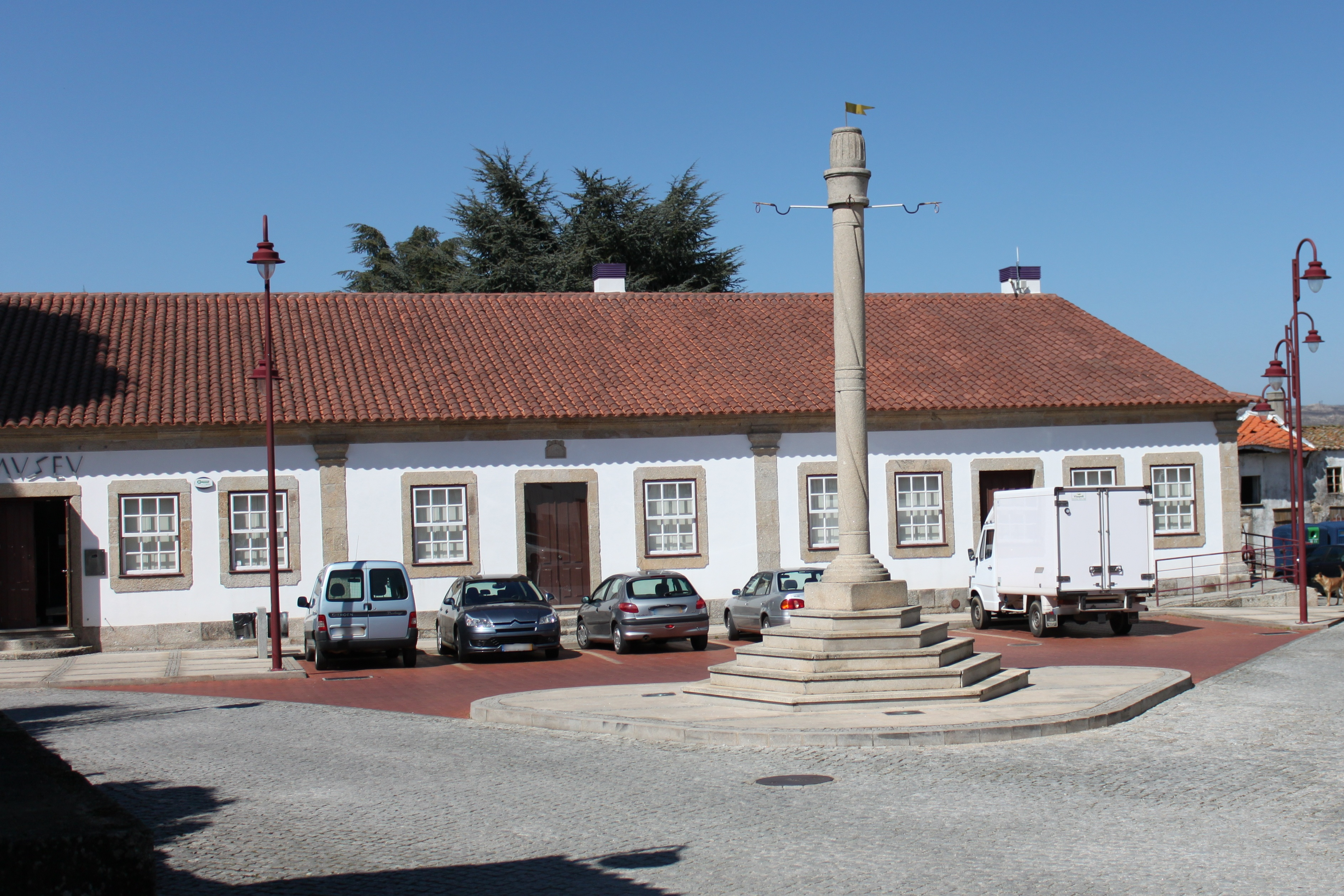 This file was uploaded for Wiki Loves Monuments in Portugal with the unique identifier 97014146.